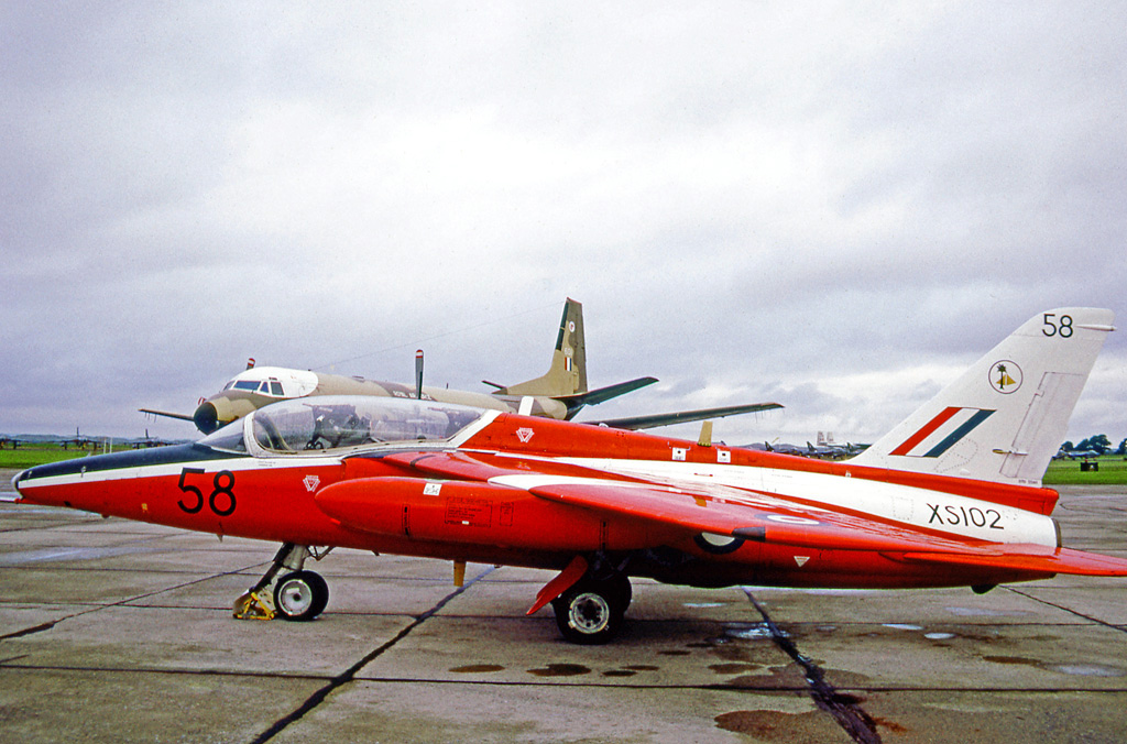 Folland (Hawker Siddeley) Gnat T.1 XS102 of 4 Flying Training School at RAF Chivenor in 1971